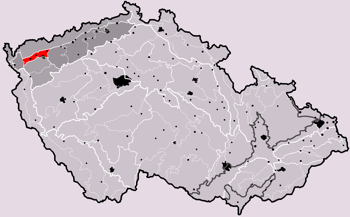 Situation of Sokolov Basin in the Czech Republic